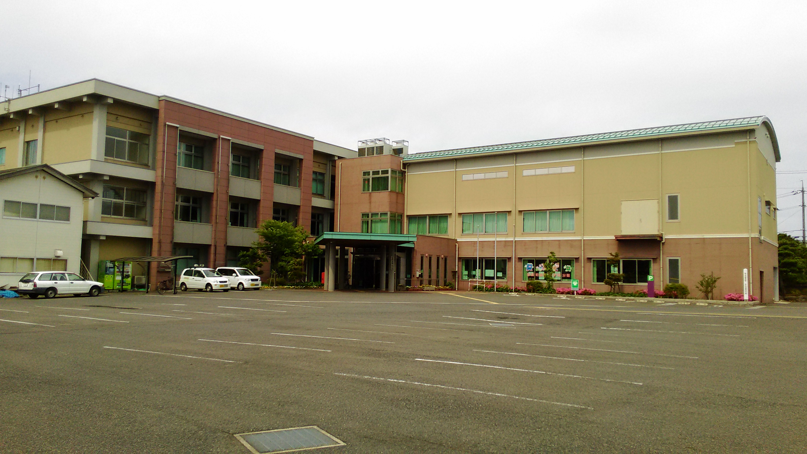 Branch office of Kotoura Town Hall, located in Akasaki, Kotoura, Tottori, Japan.